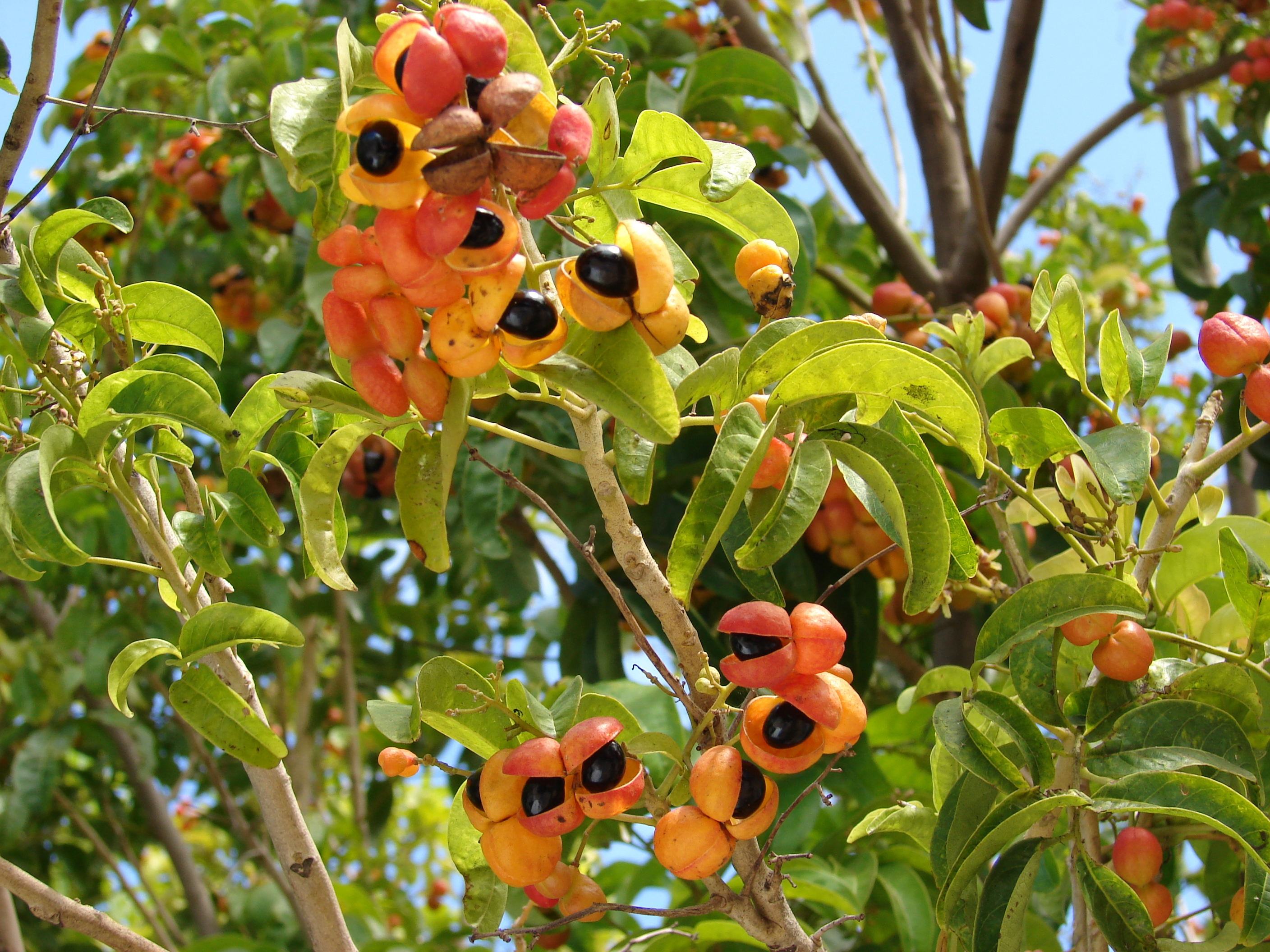 Harpullia pendula (fruit and leaves). Location: Maui, Kihei